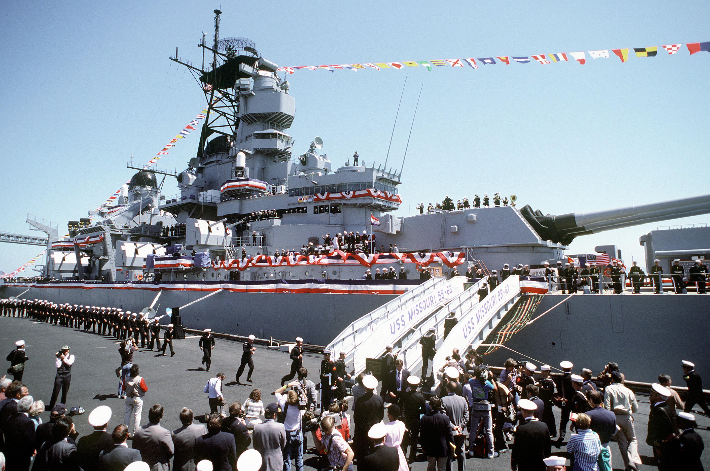 ID: DNST8607277 Service Depicted: Navy Crewmen march double-time while manning the battleship USS MISSOURI (BB-63) during recommissioning. Location: SAN FRANCISCO, CALIFORNIA (CA) UNITED STATES OF AMERICA (USA)